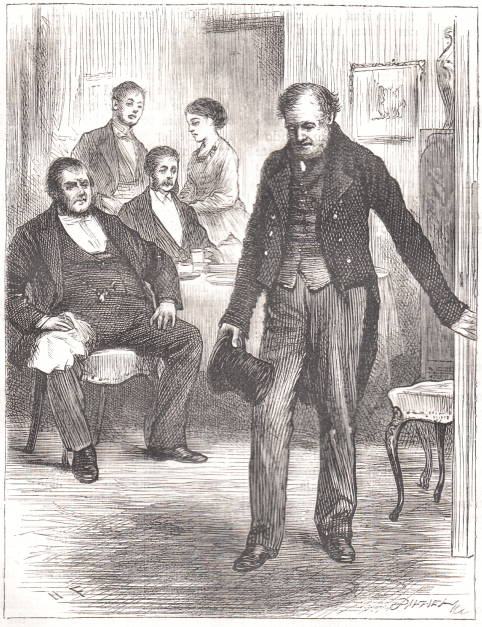 HT, Stephen Blackpool leaving after pleading his case with Bounderby, by Harry French